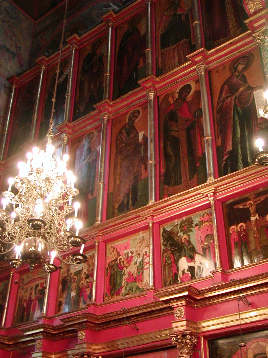 Photo of Archangel Michael Cathedral interior in Moscow Kremlin